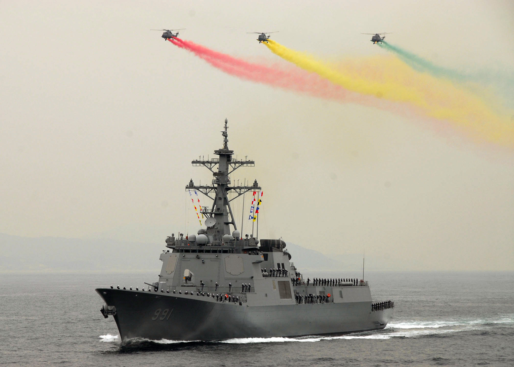 081007-N-9573A-007 BUSAN, Republic of Korea (Oct. 7, 2008) Helicopters fly over the Republic of Korea Aegis destroyer Sejong the Great, DDG-991, HLEI, during the International Fleet Review "Pass and Review. The International Fleet Review, which runs from Oct. 5 through Oct. 10, celebrates the 60th anniversary of the Republic of Korea.